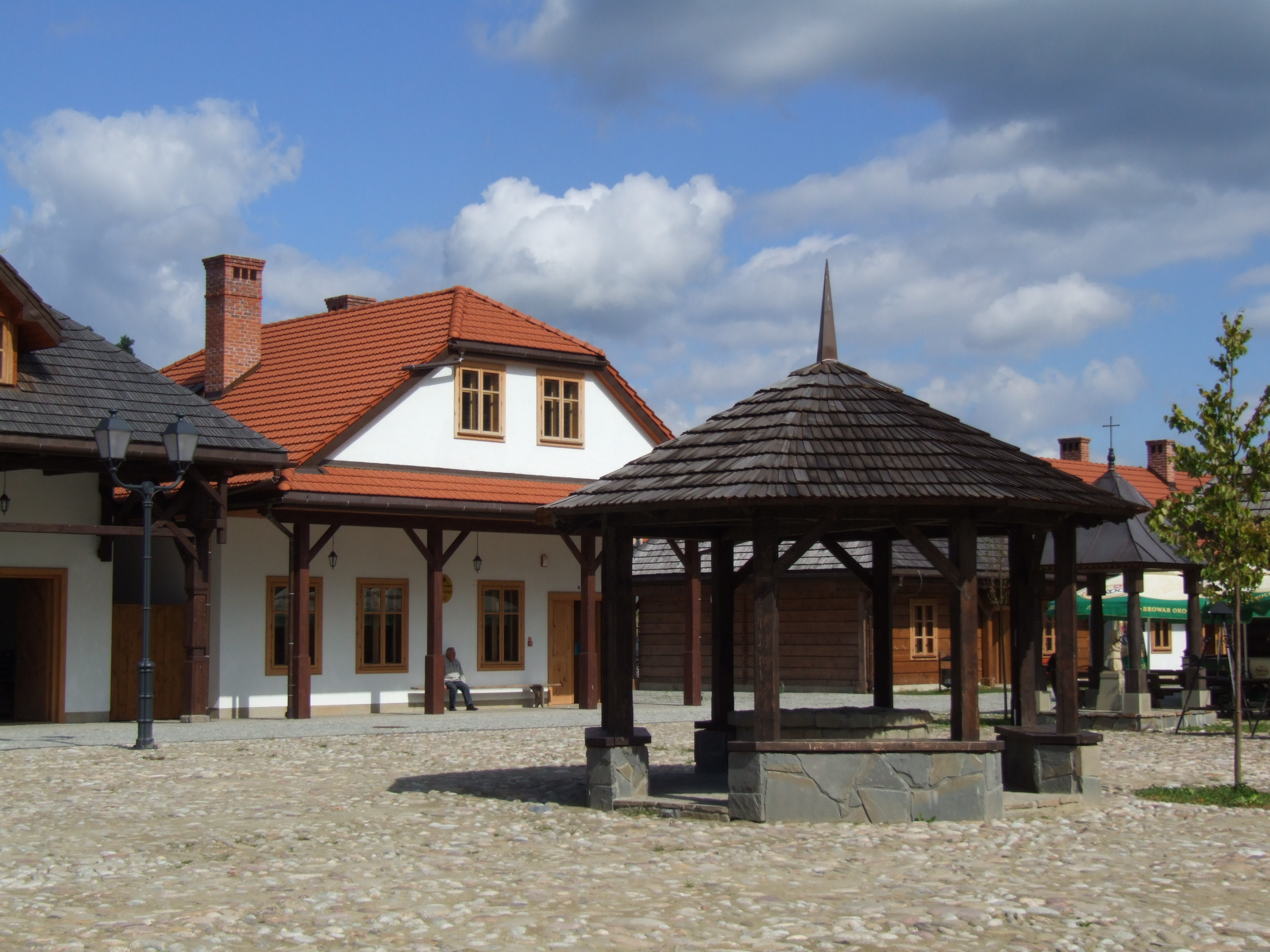 Galician market square in Skansen, Nowy Sącz